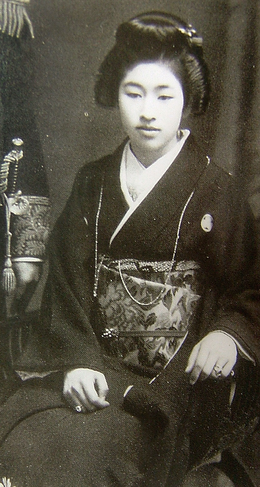 Mrs. Mieko Tokugawa Of The Tokugawa Yoshinobu Family, The Second Daughter Of Prince Takehito Arisugawanomiya, With An Obidome In Kuromonntsuki